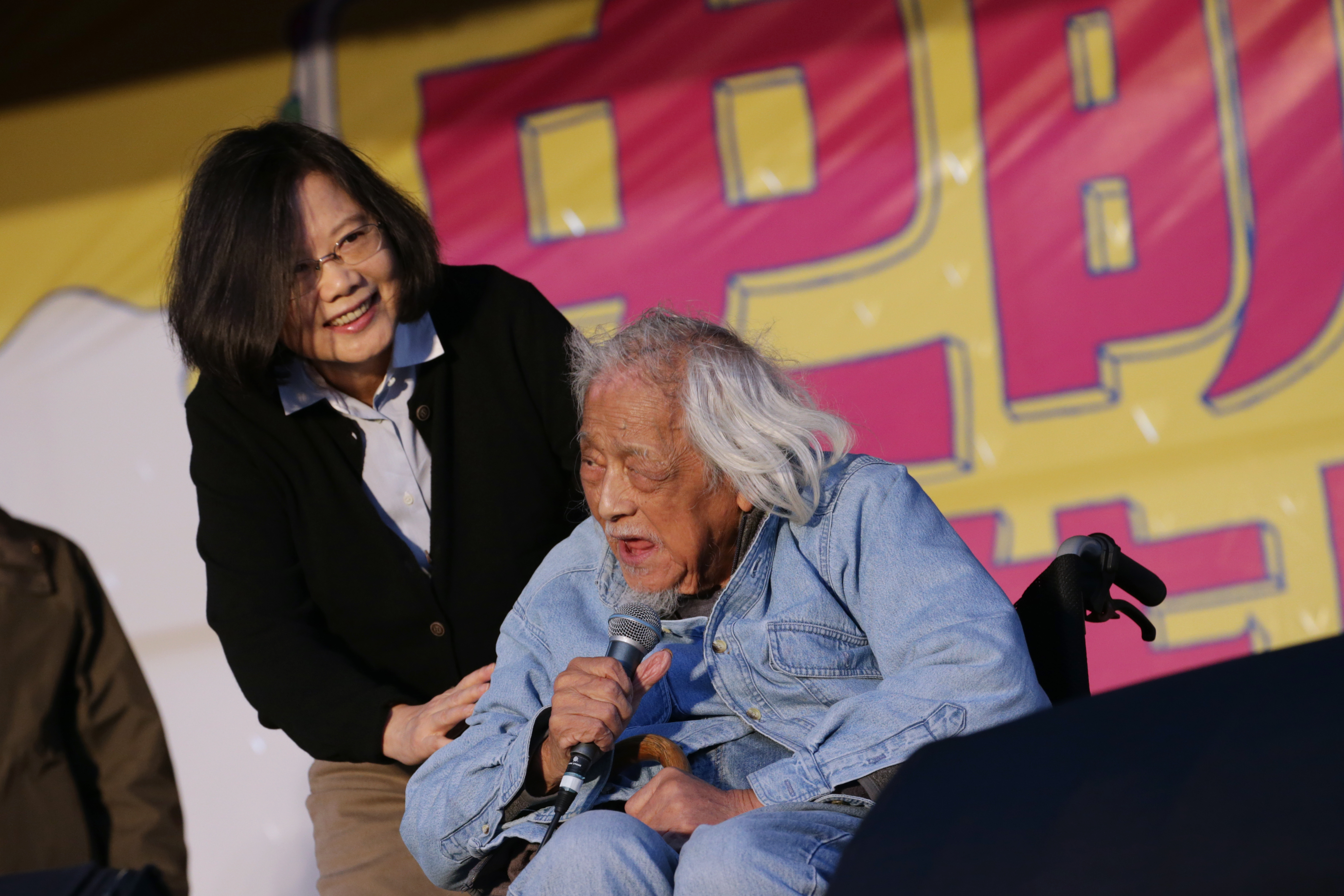 授權方式及範圍： 中華民國總統府│政府網站資料開放宣告 Authorization Method & Scope: Office of the President, Republic of China (Taiwan) | Government Website Open Information Announcement